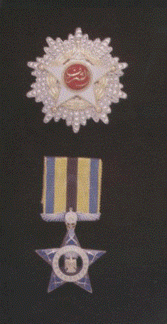 Egypt Hounor Star